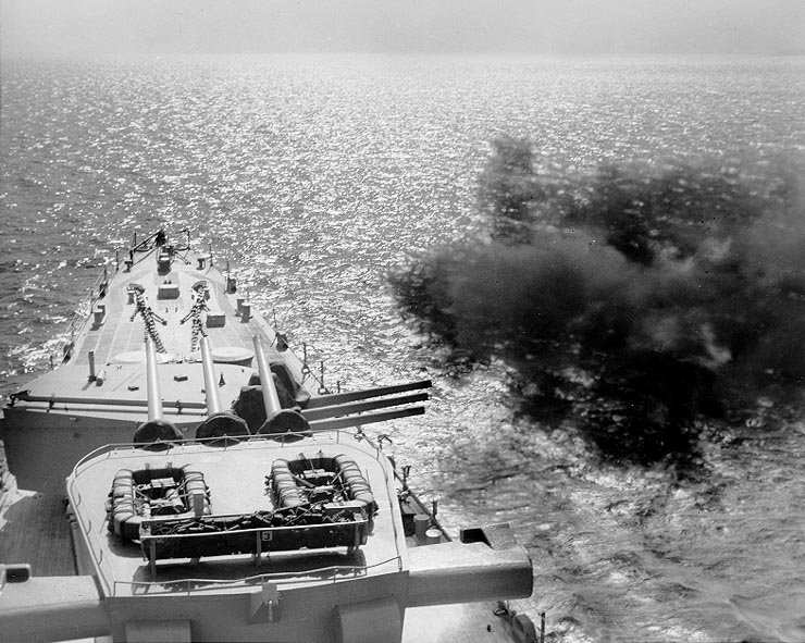 USS Manchester (CL-83) returns enemy counter-battery fire with her forward turret's 6"/47 guns, while operating off the North Korean east coast, March 1953. Note life rafts and floater nets stowed atop turret two.